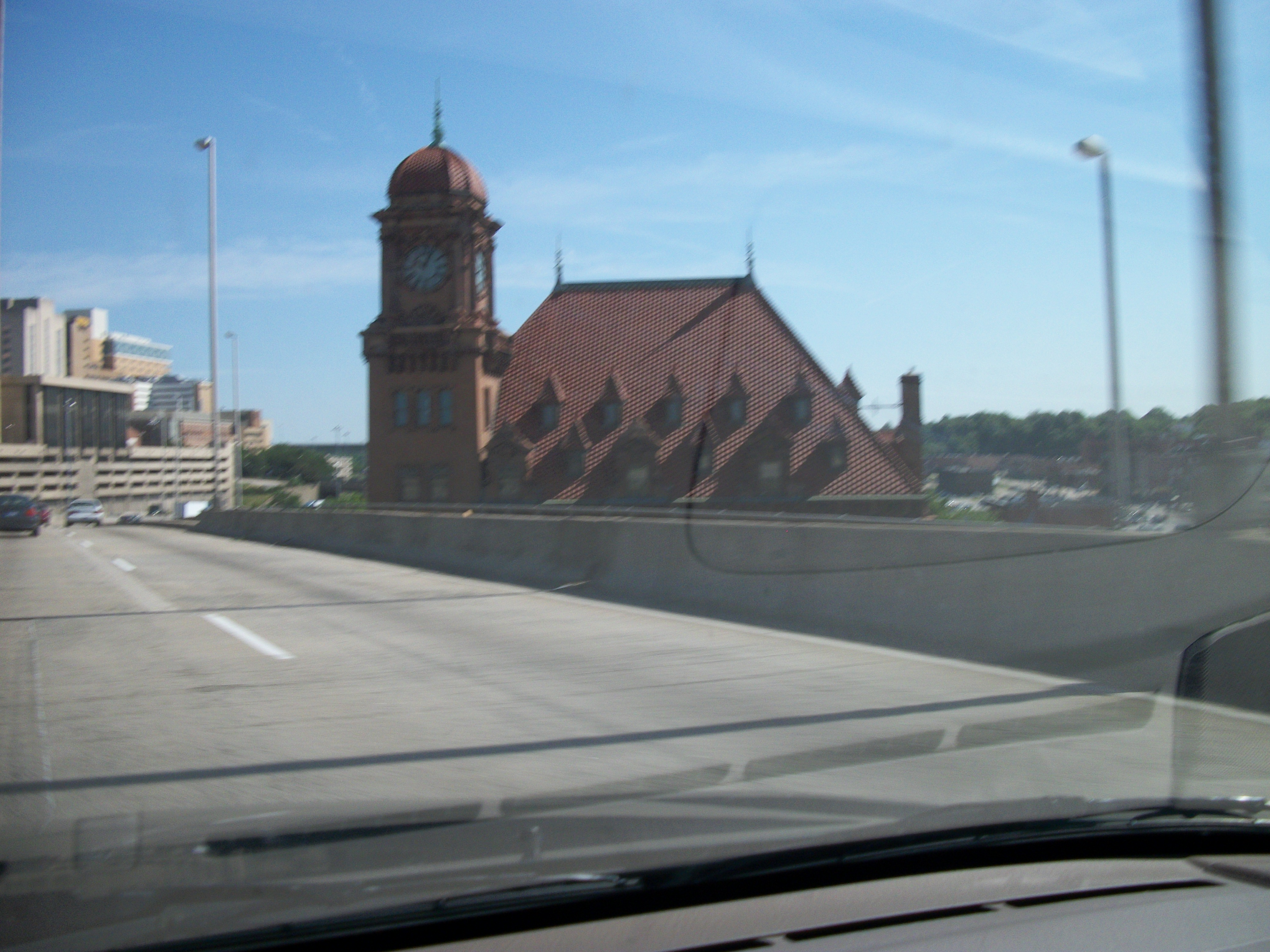 A view of Richmond Main Street Station from Interstate 95 in Virginia, one of those structures that is impossible to ignore when you're driving through Richmond.